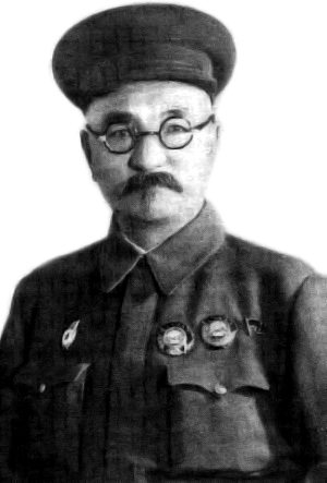 Gonchigiin Bumtsend Монгол: Гончигийн Бумцэнд